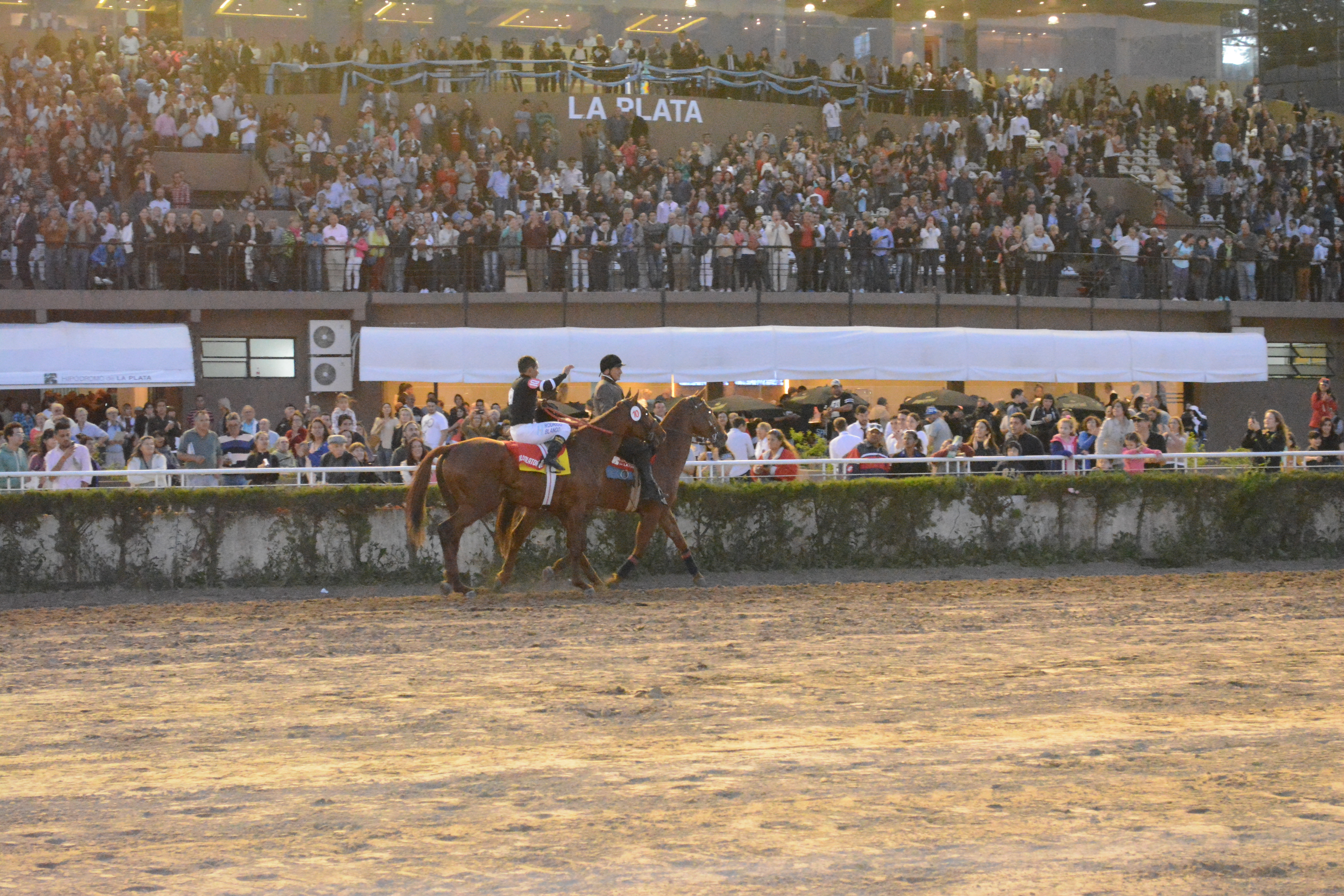 PSC Calcolatore